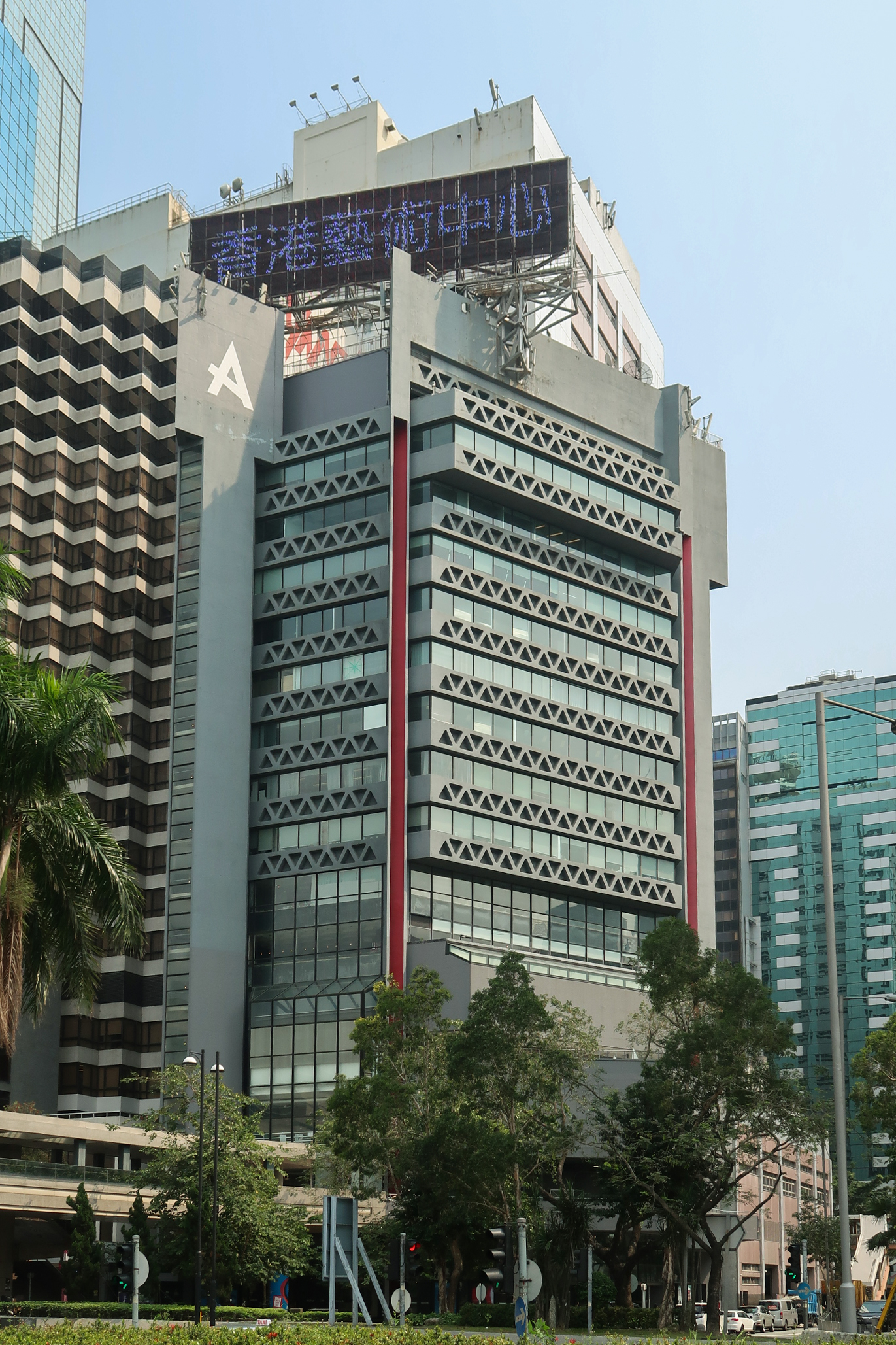 Hong Kong Arts Centre